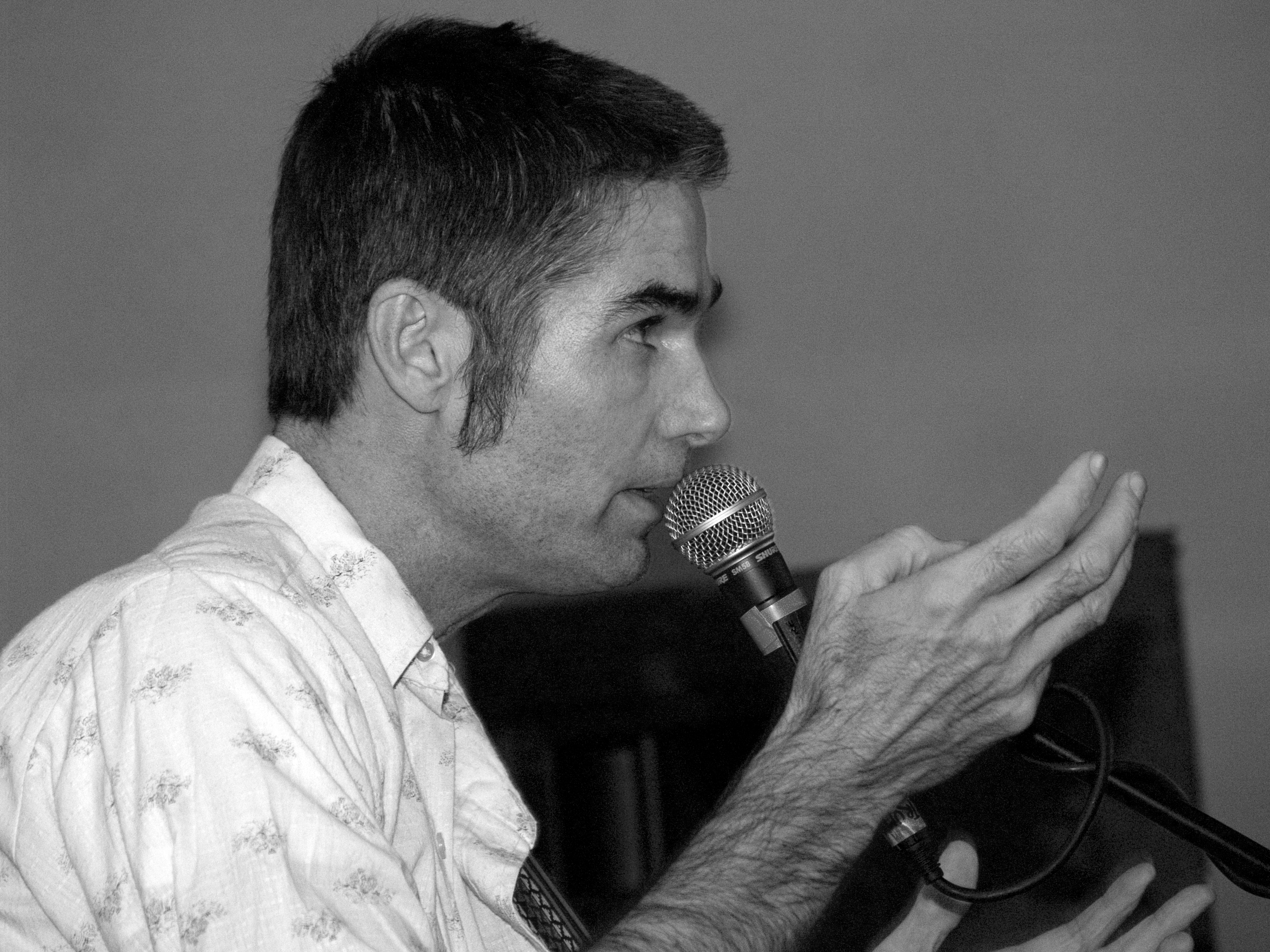 Jim White at Nottingham's Bodego Social Club